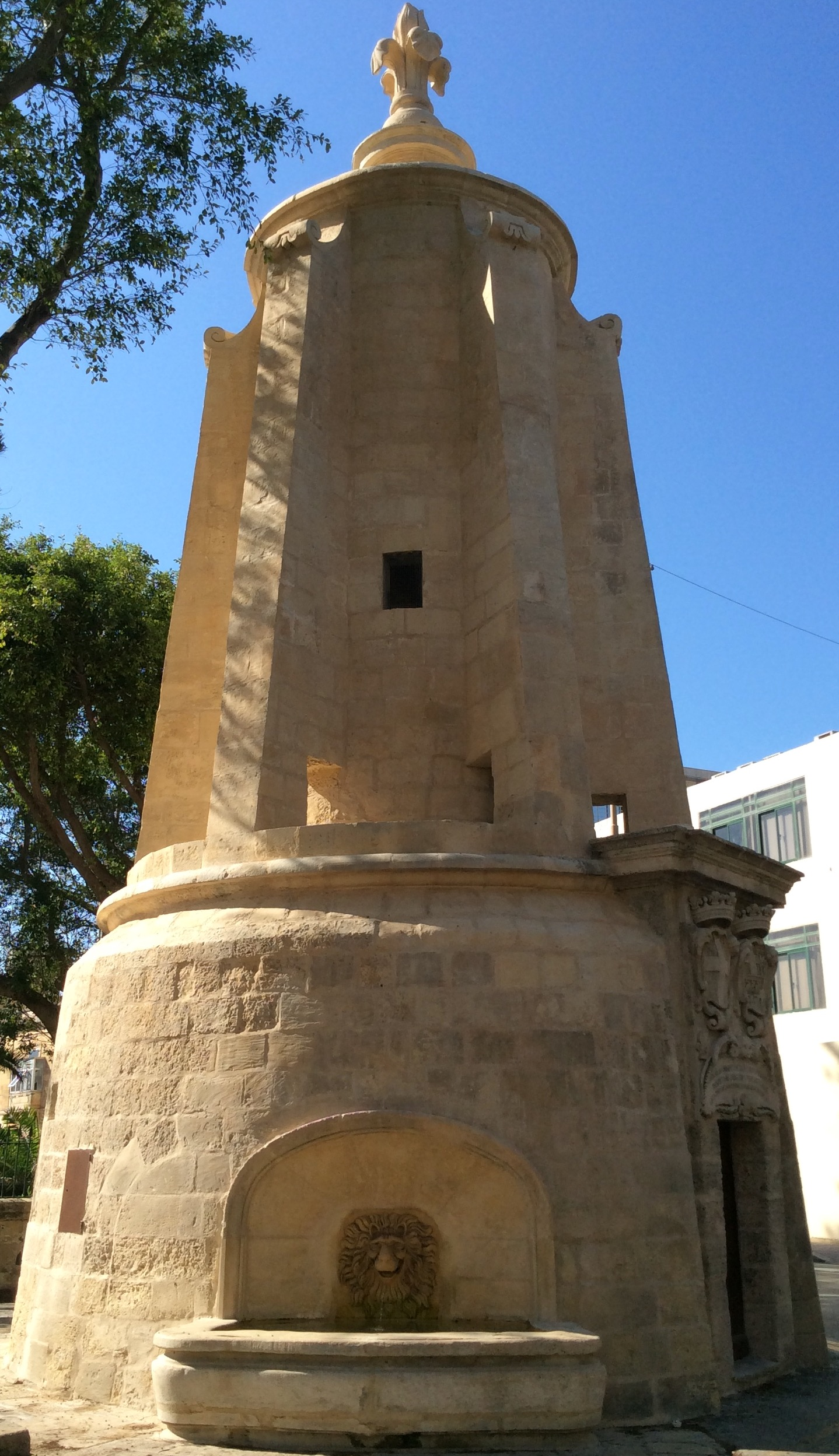 Wignacourt Water Tower restored with new rebuilt lion